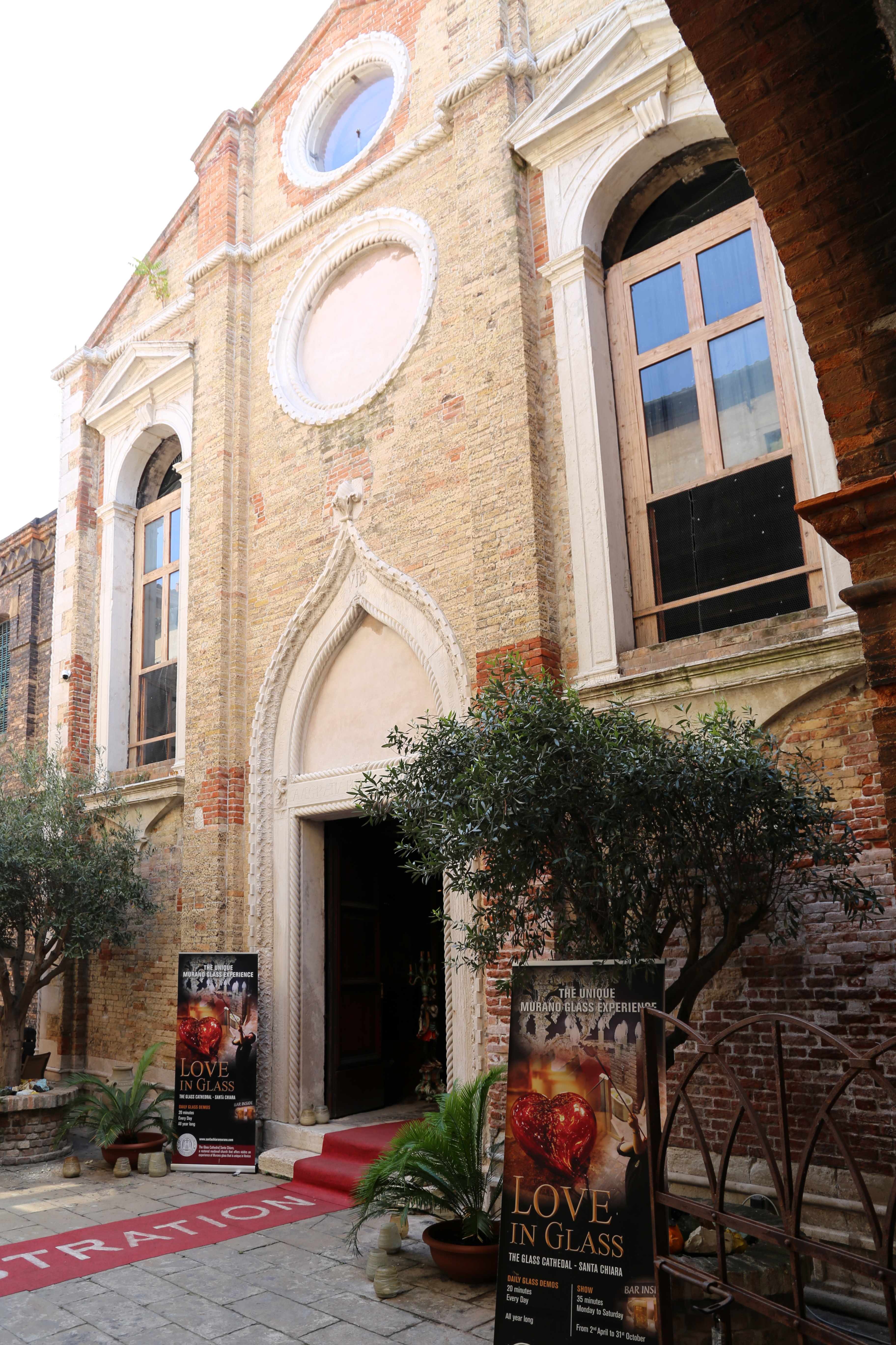 Santa Chiara (Murano)